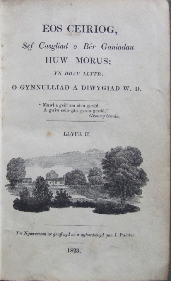 Titlepage of vol. II of Eos Ceiriog (Wrexham, 1823), the collected poems of Welsh-language poet Huw Morus ("Eos Ceiriog") (1622-1709), edited by Gwallter Mechain.